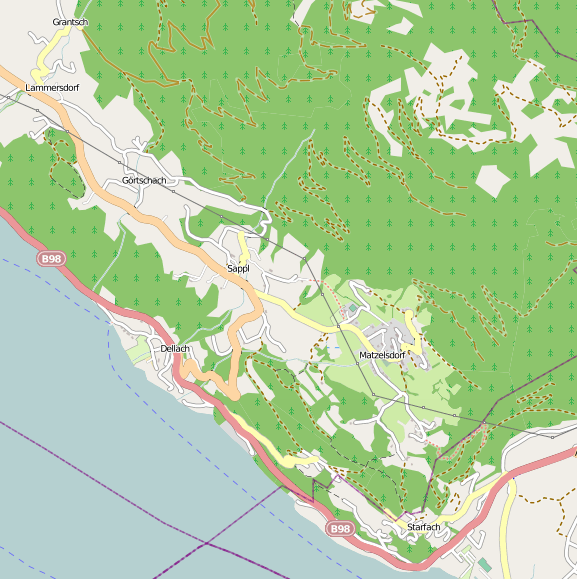 This map may be incomplete, and may contain errors. Don't rely solely on it for navigation.